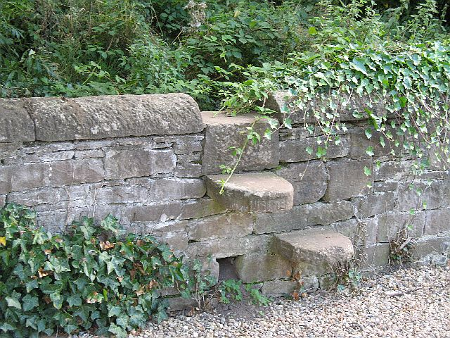 Stile, Baldowrie Stone stile, unfortunately broken on the far side.